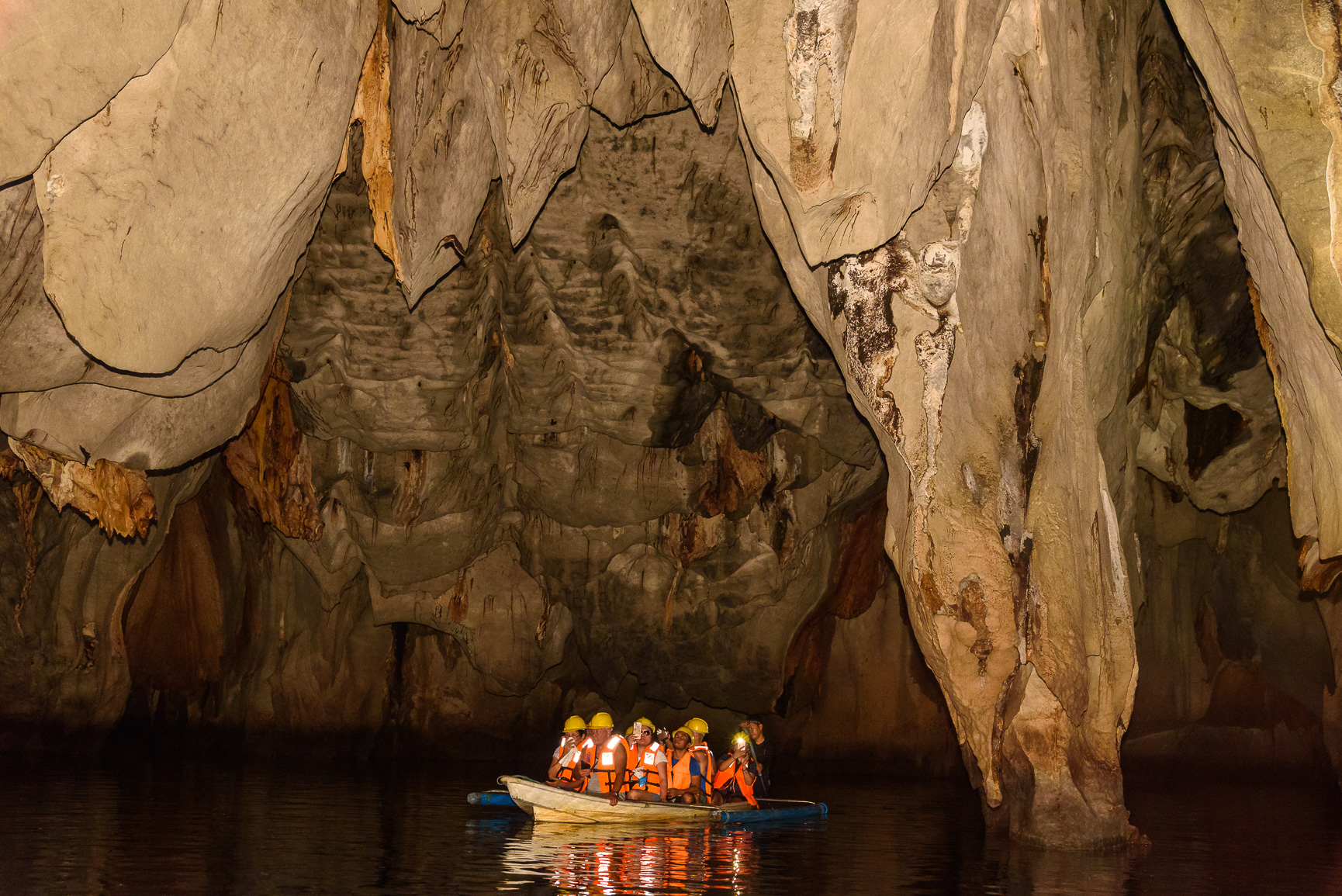 Fellow tourist enjoying the expanse of the Subterranean River system.